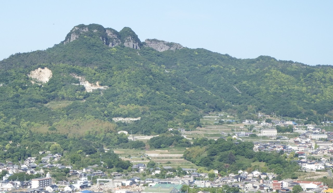 Mount Goken as sen from the west in Takamatsu, Kagawa Prefecture, Japan. Taken from Yashima. Yaguriji temple in the center.